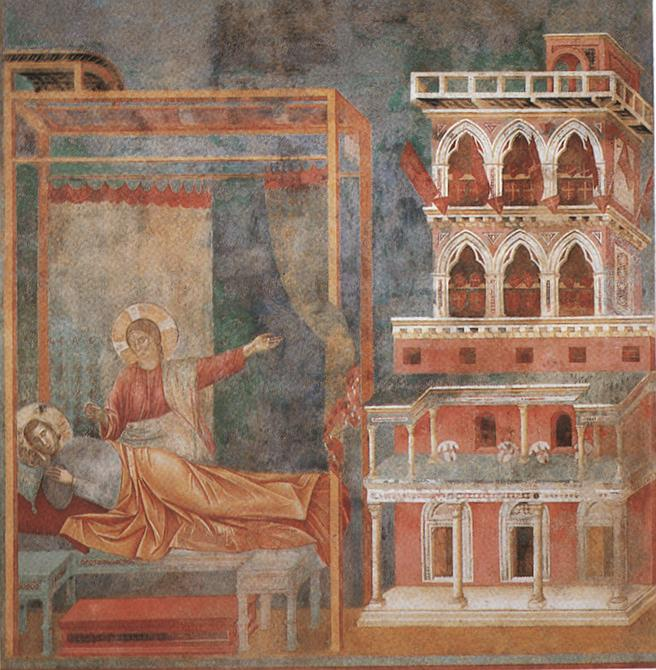 Legend of St Francis